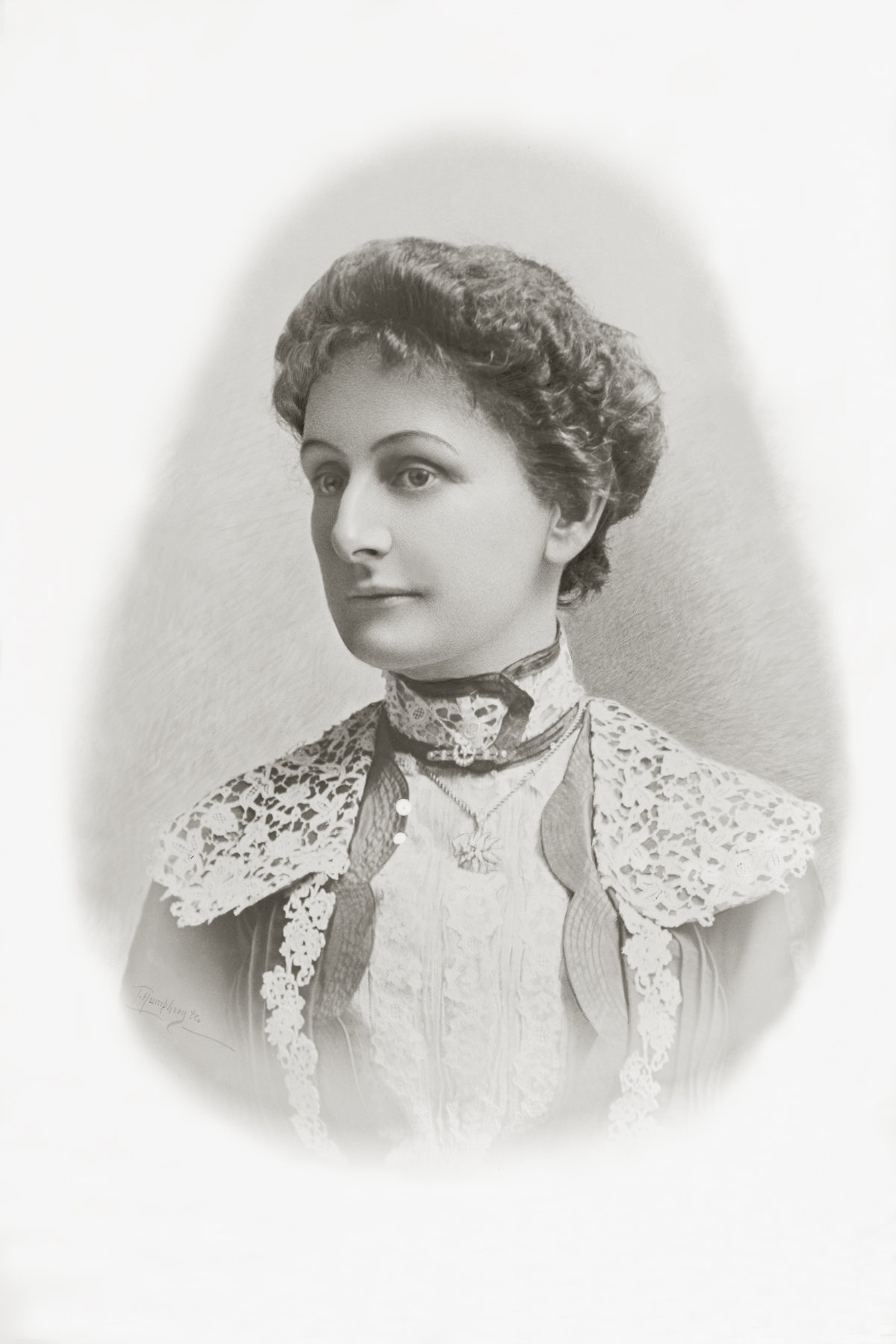 Portrait photograph of Bella Guerin.